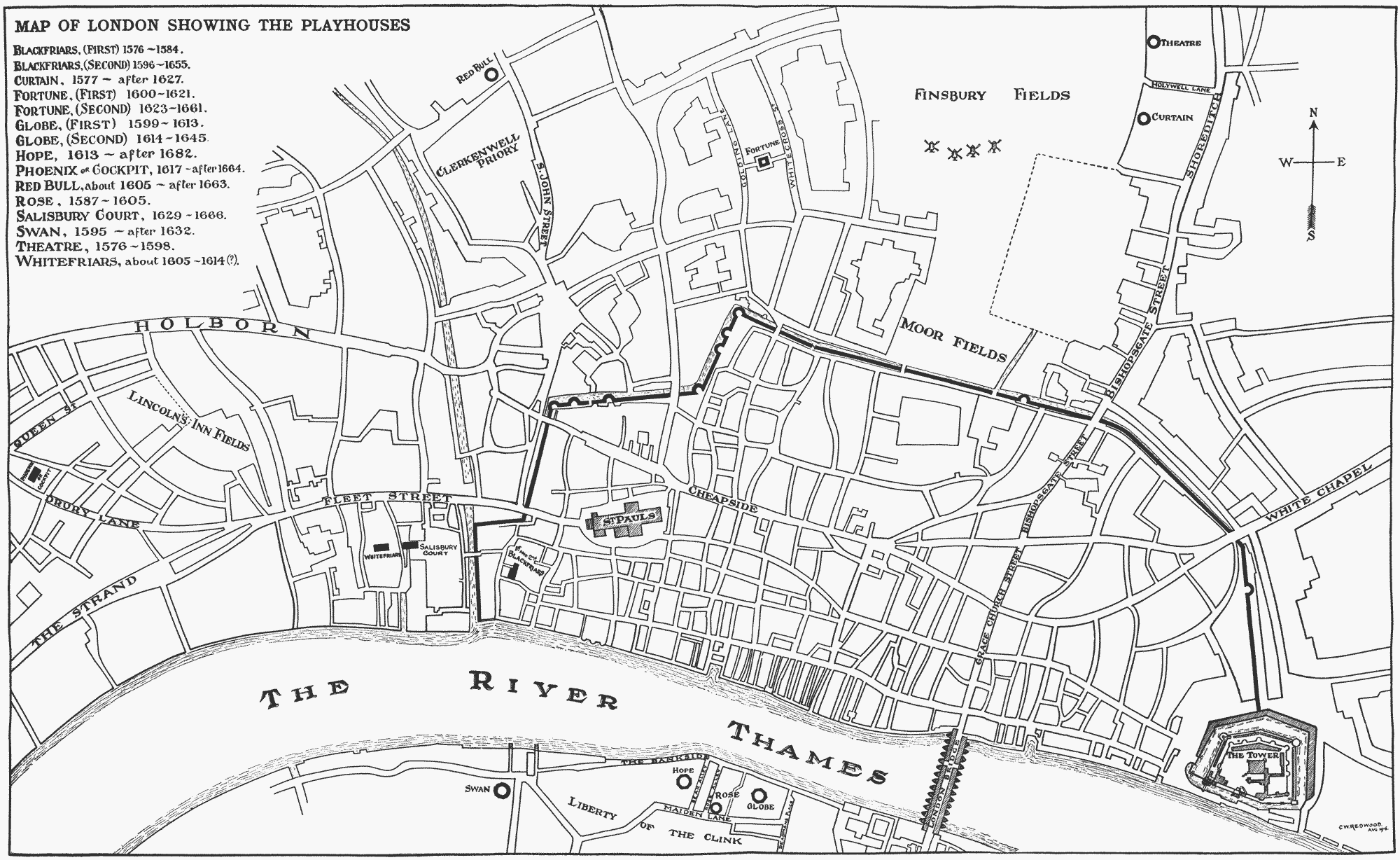 London map showing Shakespearean theatres, in the 16th and 17th century